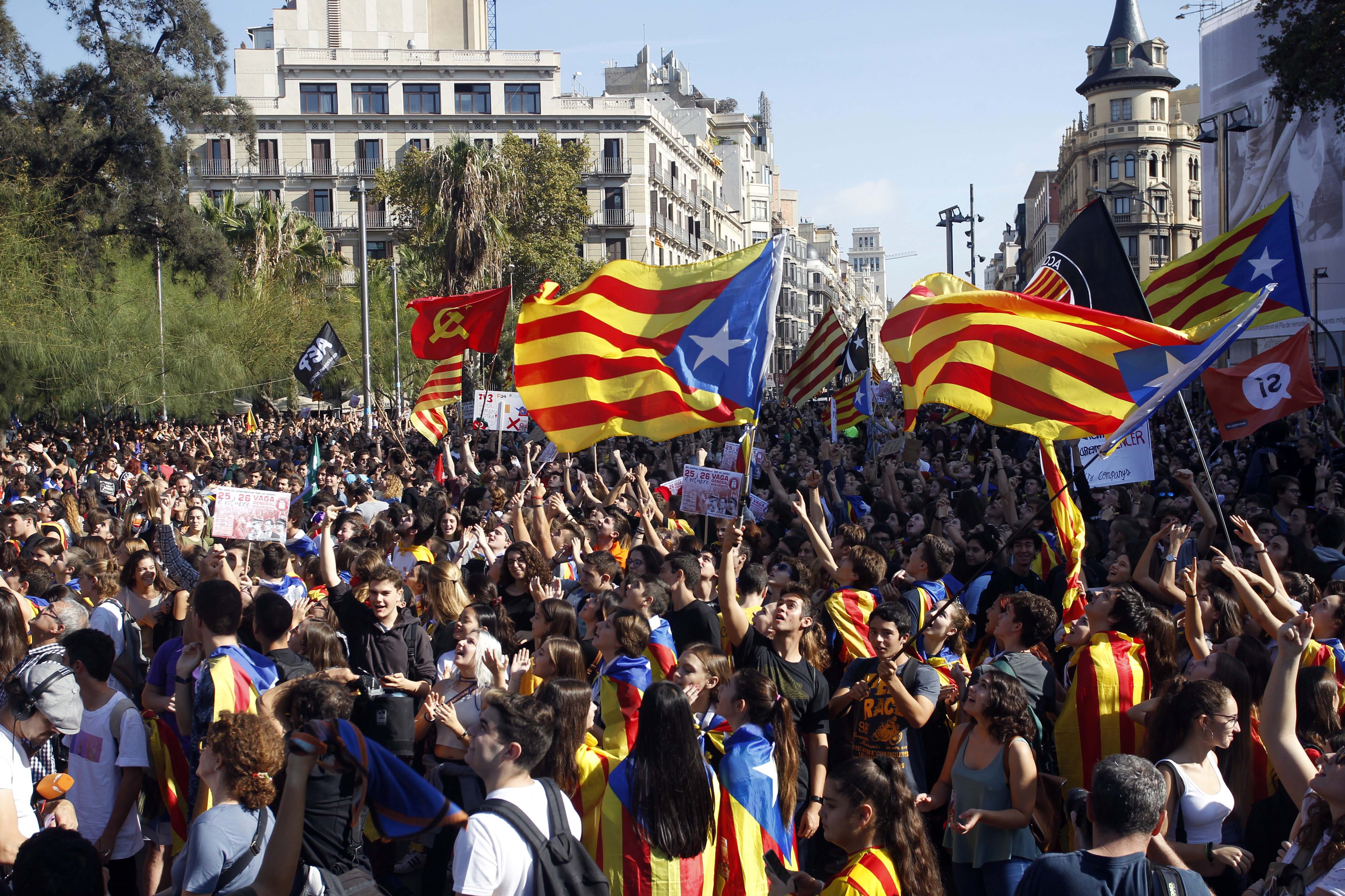 ESTUDIANS CONTRA EL 155